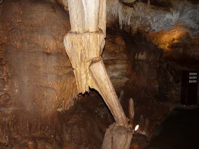 Inside the Tantanoola Cave